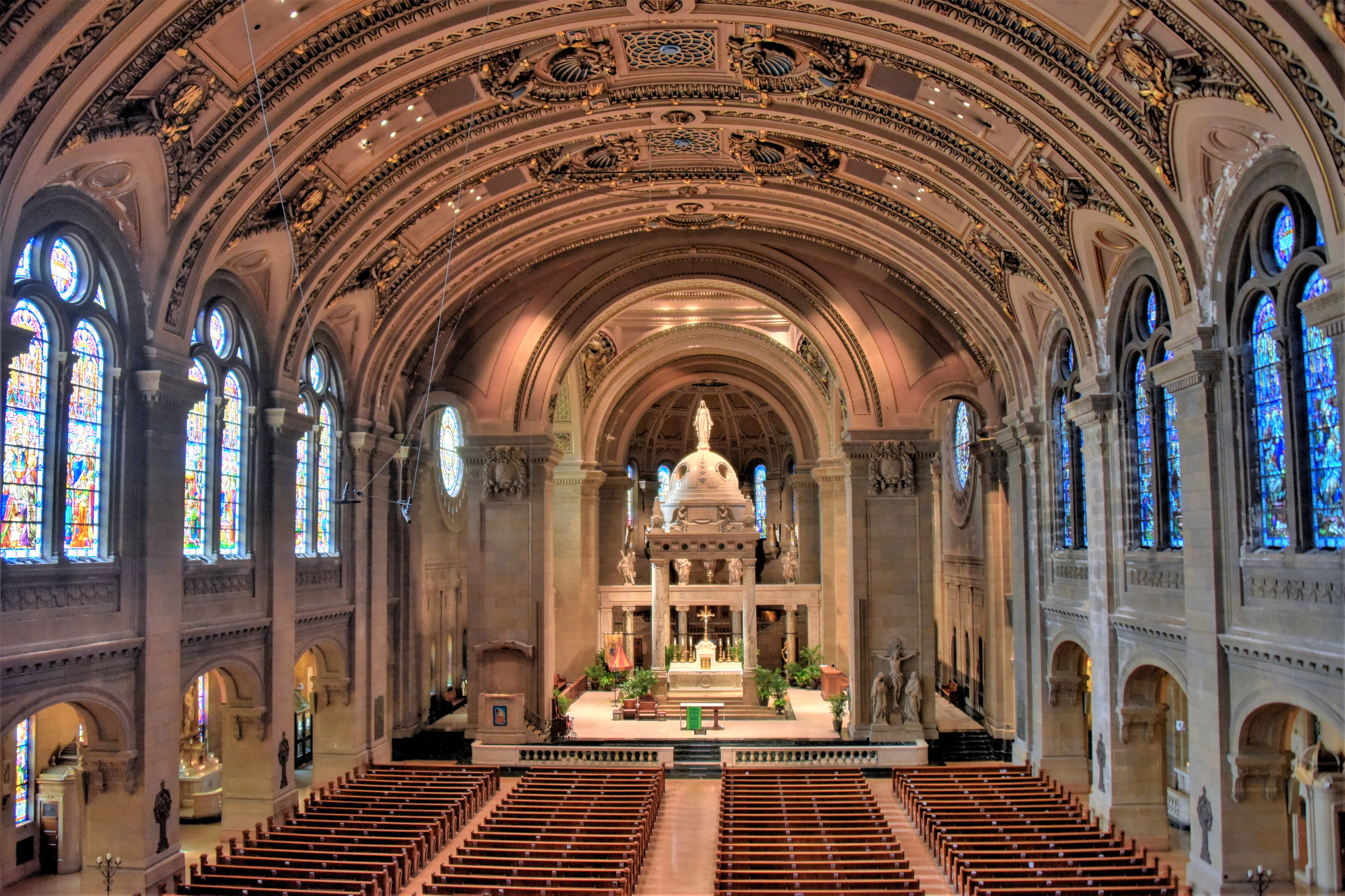 The nave and altar in St. Mary's Basilica, Minneapolis, as viewed from the choir loft on the opposite end of the building.